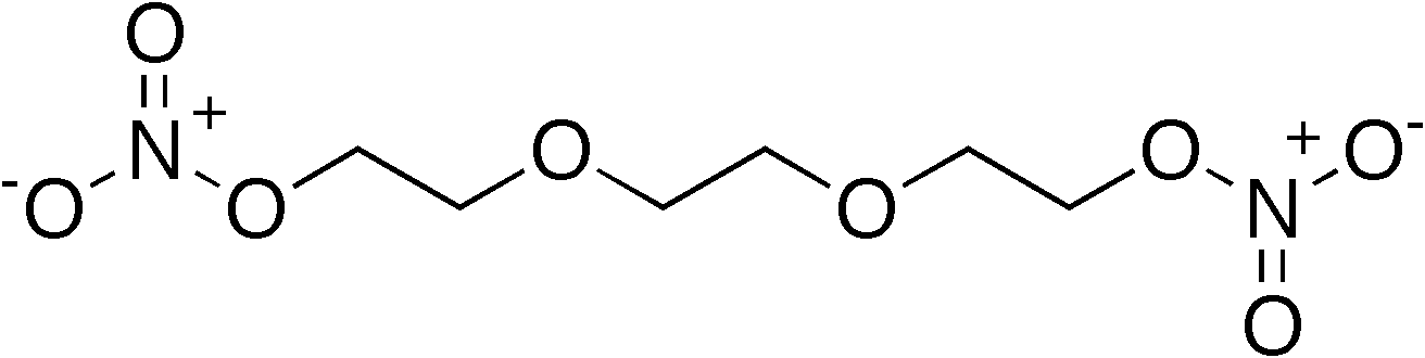 chemical structure of triethylene glycol dinitrate (TEGDN)